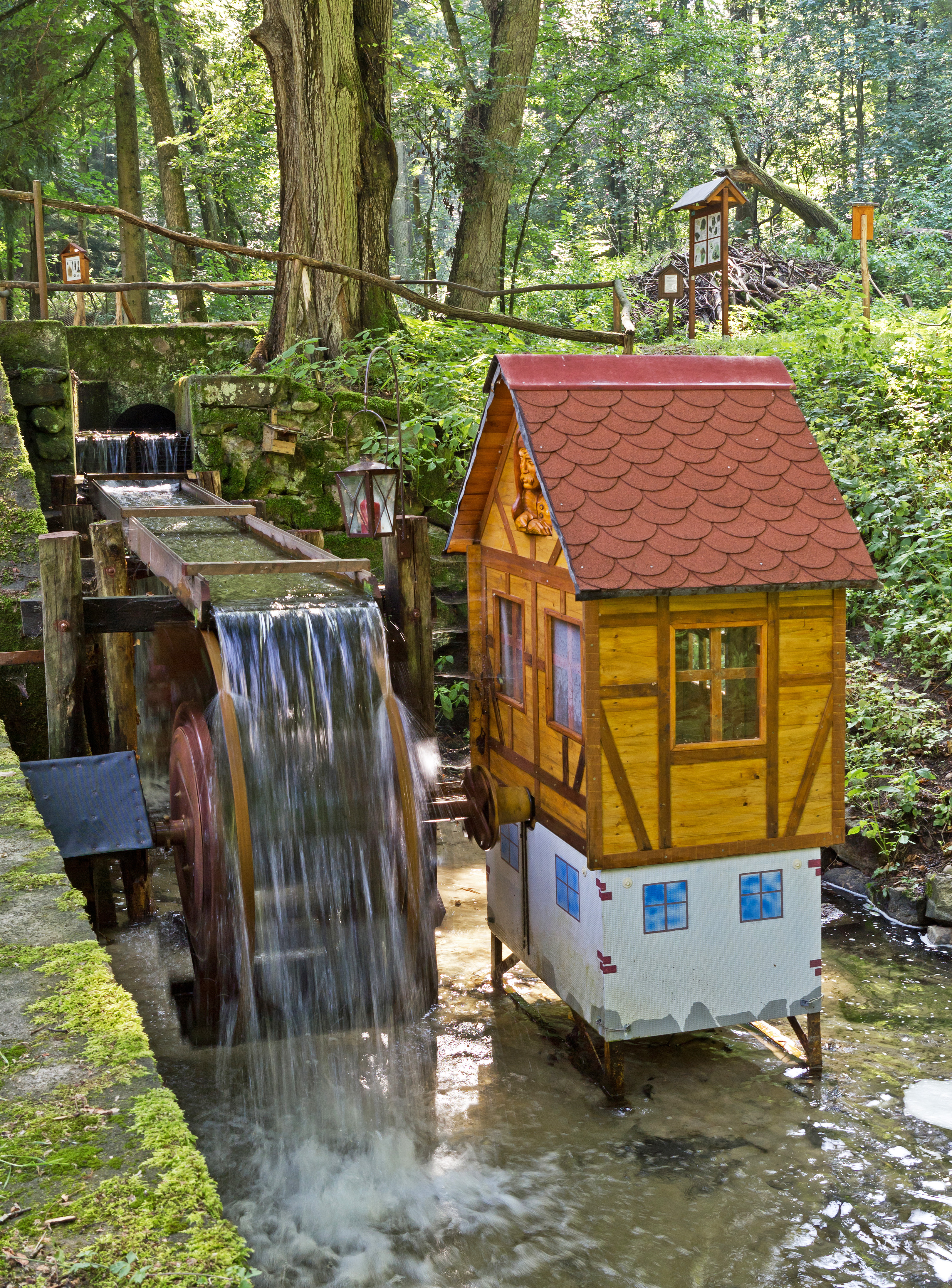 Schlaube Valley Nature Park, Brandenburg, Germany